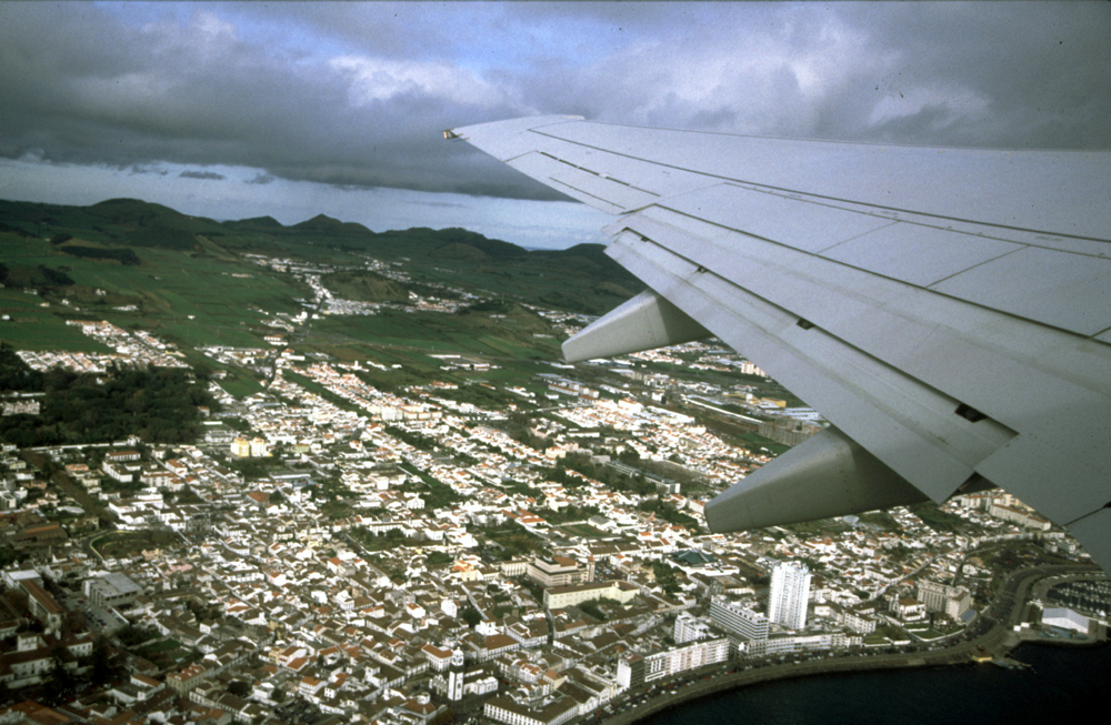 Sao Miguel island - The Azores